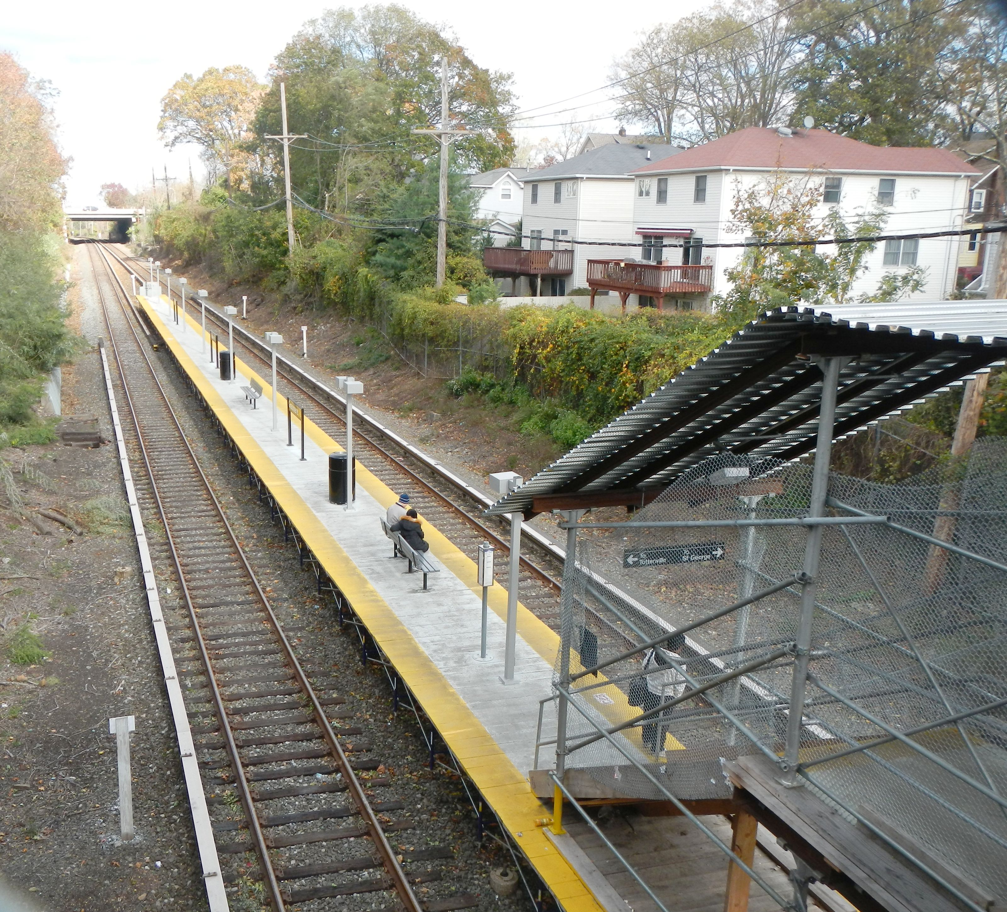 Looking northeast from Clove Road overpass at new stairway and platform of Grasmere station on a mostly cloudy midday.